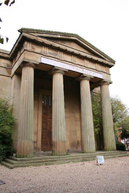 Spilsby Theatre. The former Sessions House of 1824 with grand fluted Greek Doric portico is now home to Spilsby Theatre.